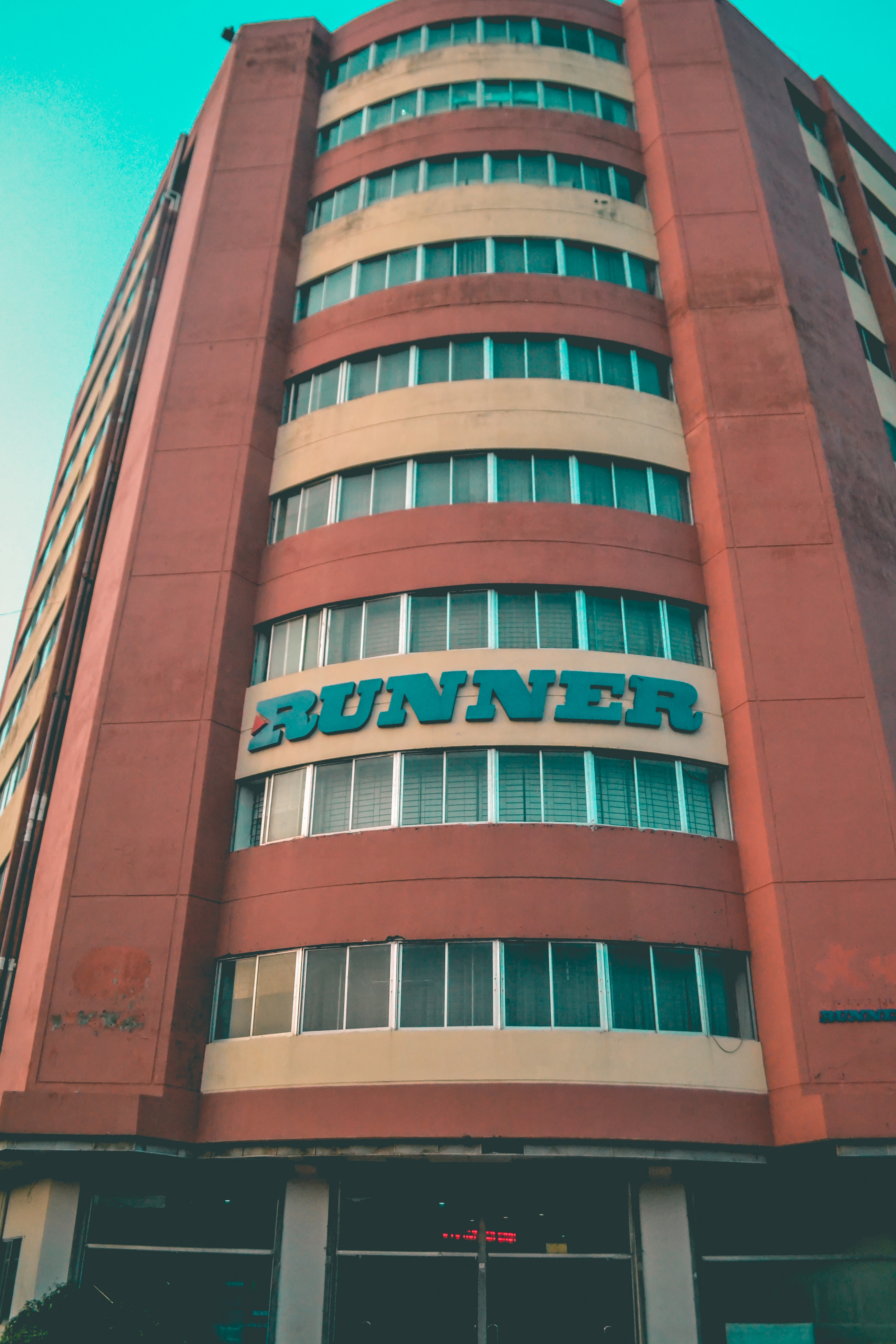 Corporate office of Runner automobile